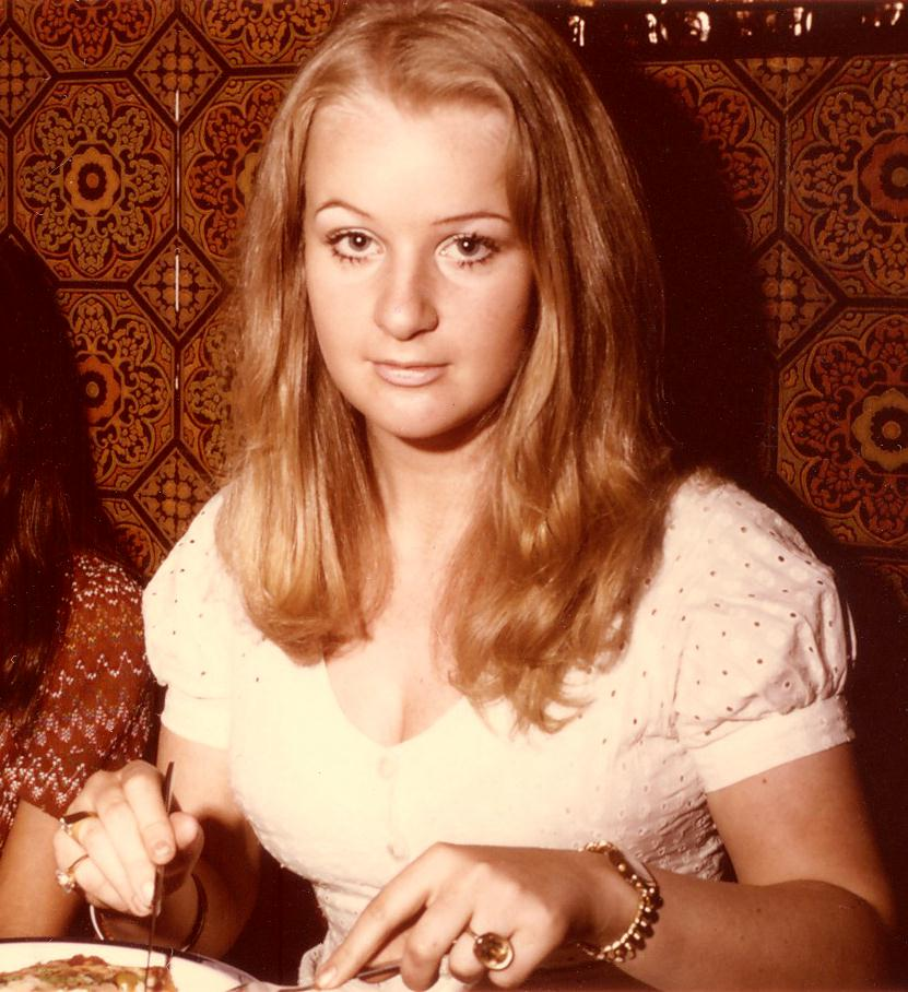 Swedish disc jockey Jill Wernström, as released by image creator Lars Jacob ProdPlace: Romanoff, Döbelnsgatan 4, Stockholm, Sweden